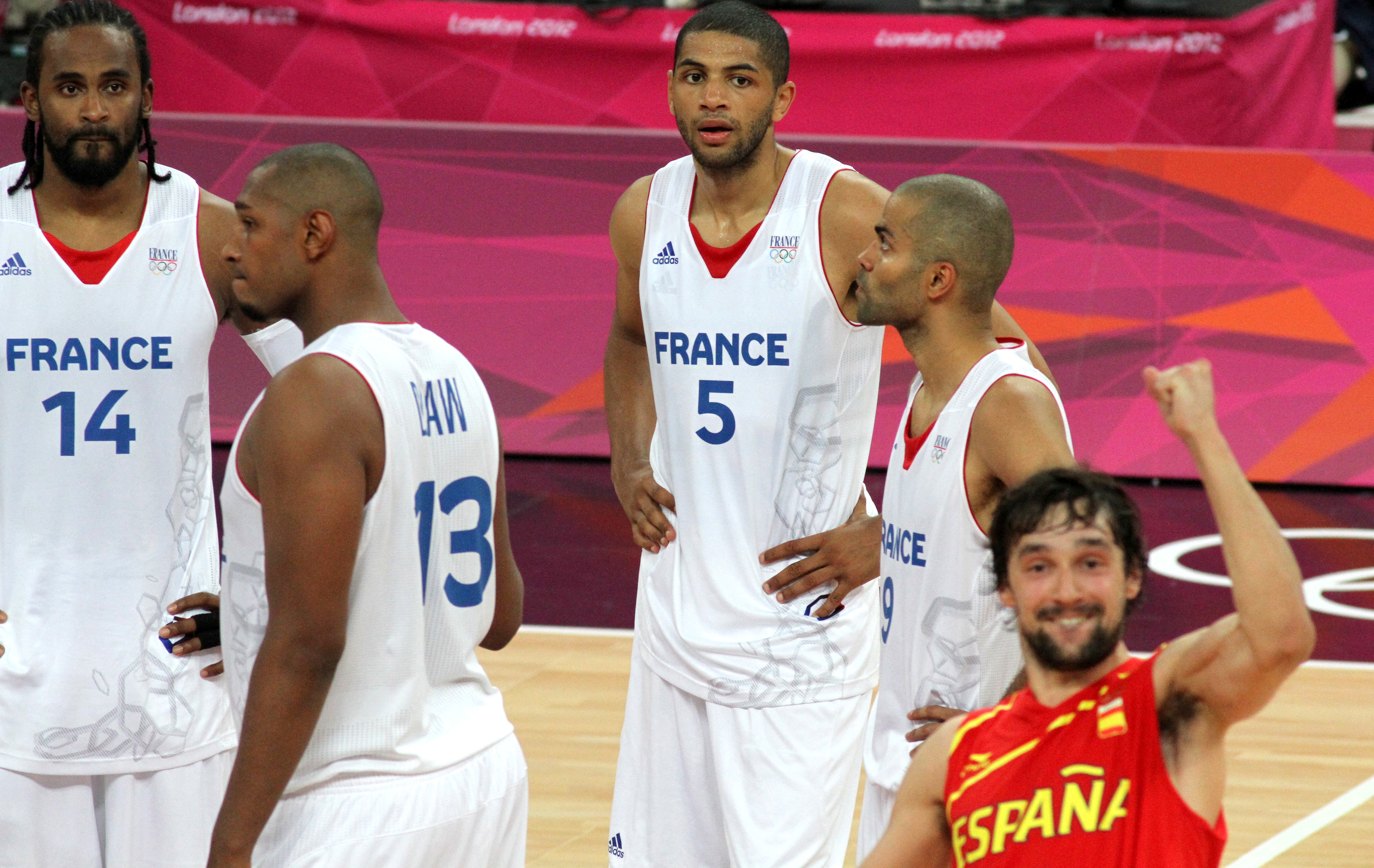 From left to right, Ronny Turiaf, Boris Diaw, Nicolas Batum, Tony Parker, Sergio Llull.